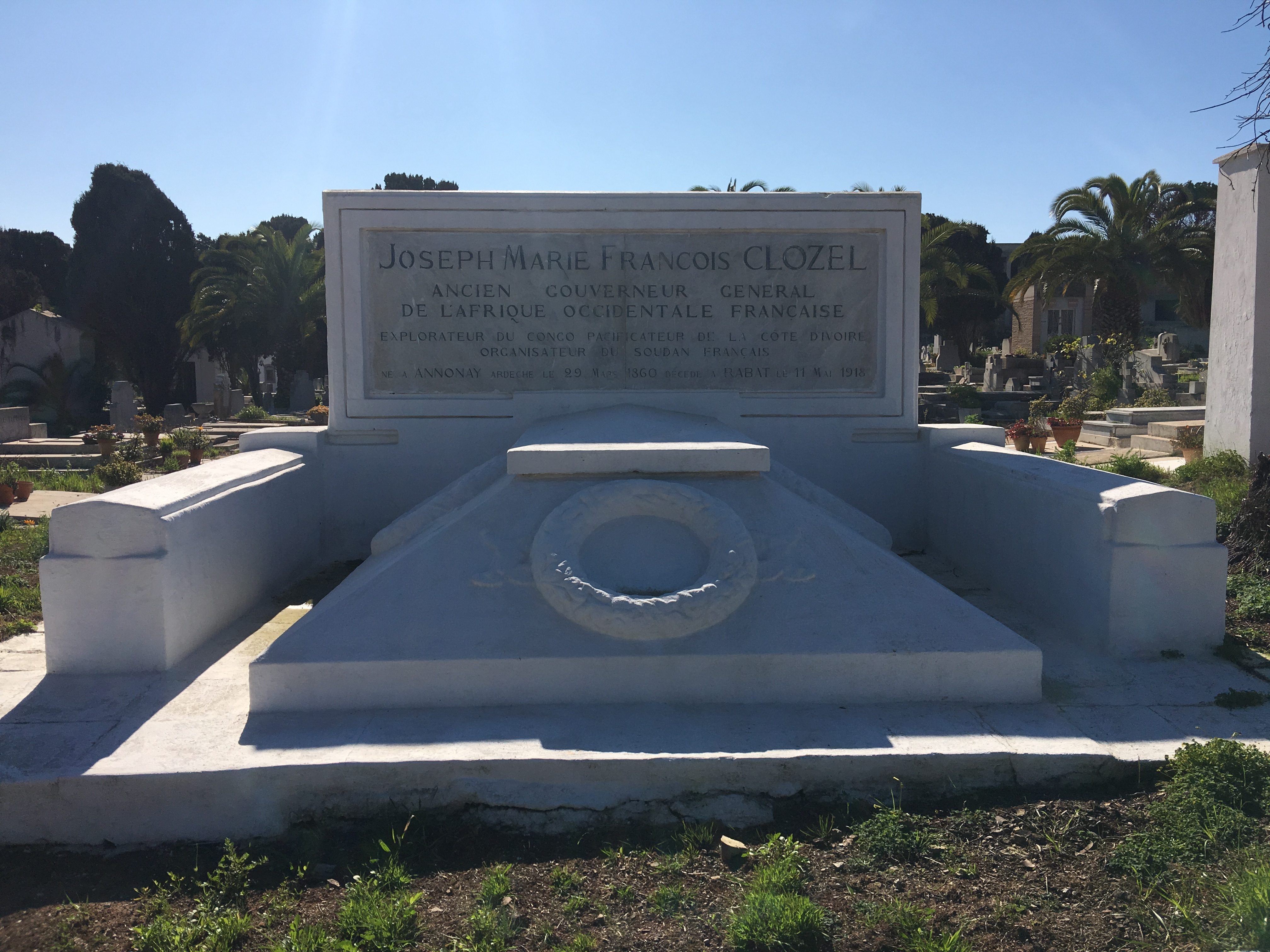 Tombstone of Joseph-Marie François Clozel in the Christian cemetery of Rabat, Morocco.